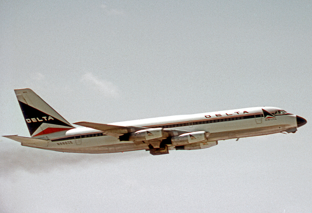 Convair 880 N8802E of Delta Air Lines departing from Atlanta International Airport in 1972